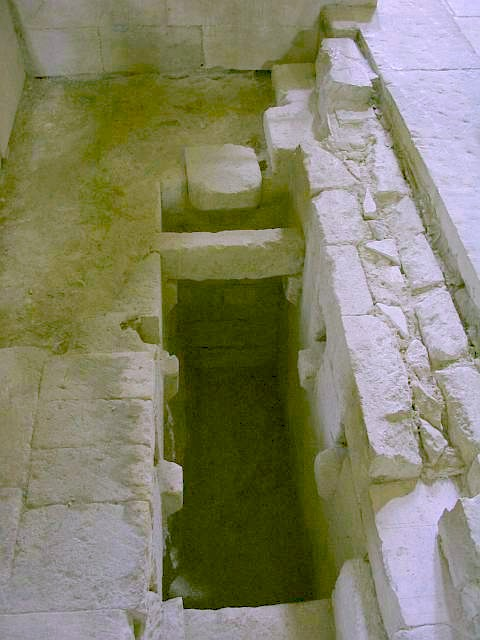 Burial of Bertrand des Baux